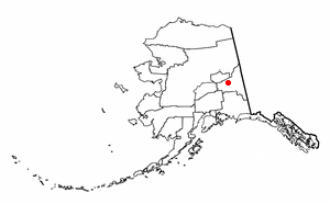 Adapted from Wikipedia's AK borough maps by Seth Ilys.